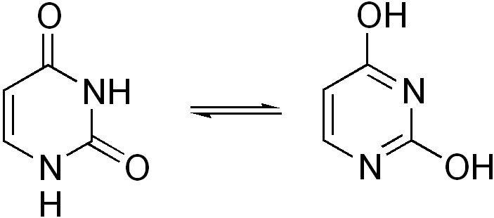 chemical structure of uracil showing tuatomers